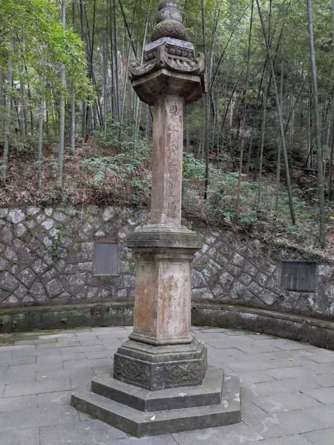 Hongyi Tomb in Hupao Park Hangzhou